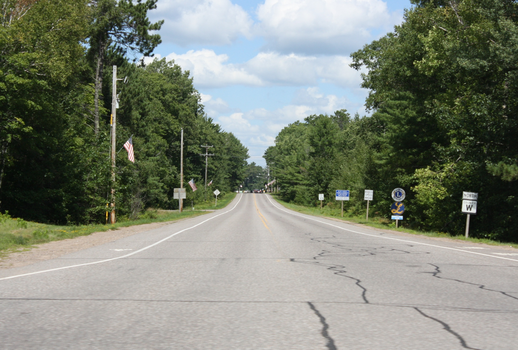 Looking north down County W in Manitowish Waters, Wisconsin.